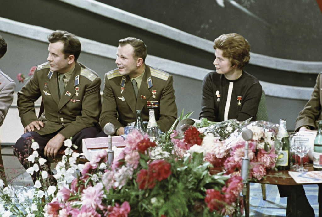 “Soviet cosmonauts, Heroes of the Soviet Union Pavel Popovich, Yuri Gagarin, and Valentina Tereshkova”. From left: Soviet cosmonauts, Heroes of the Soviet Union Pavel Popovich, Yuri Gagarin, and Valentina Tereshkova in the TV studio.